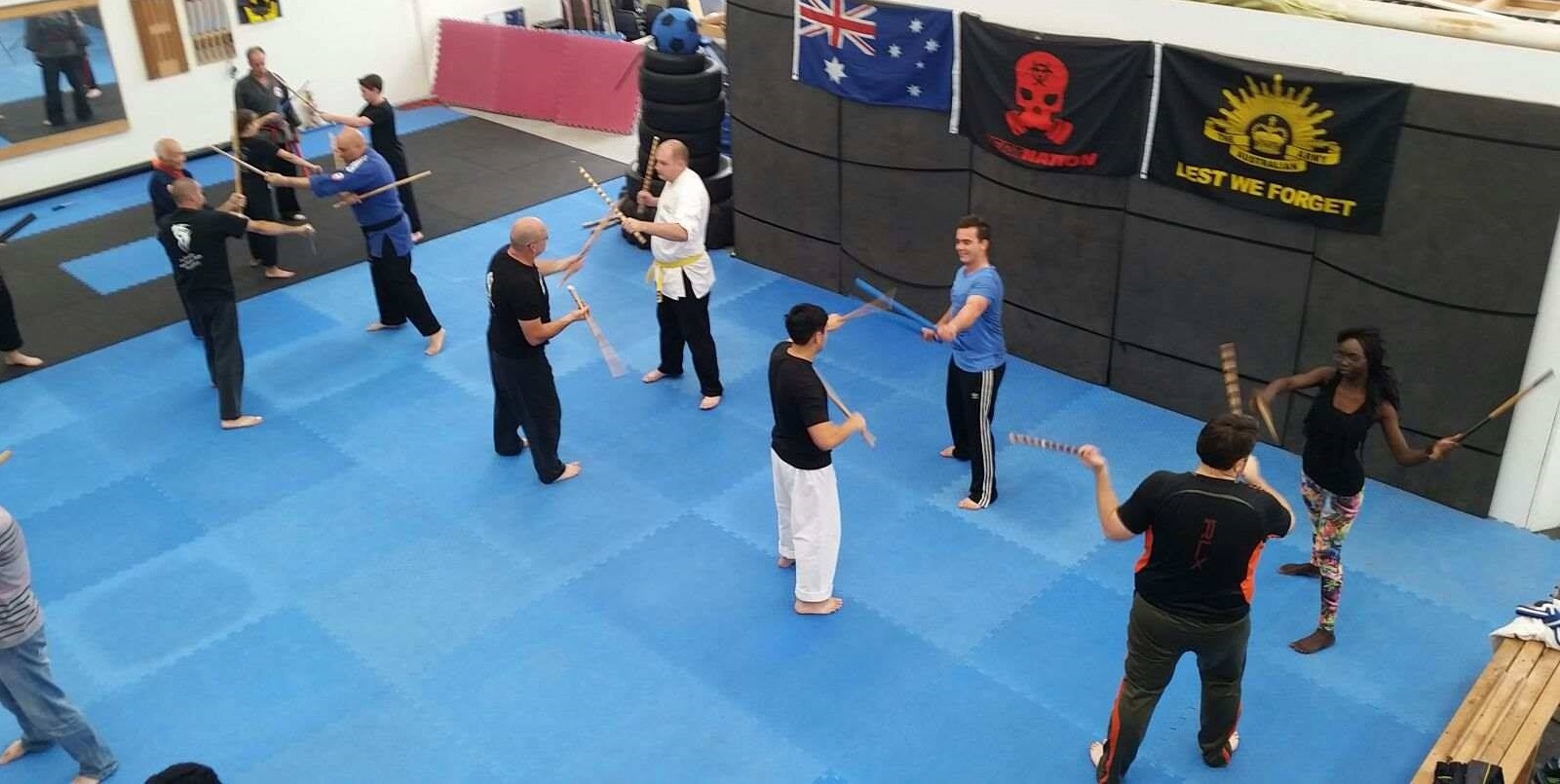 Practicing Sinawali activity at Arnis seminar by Terry Lim and Maurice Novoa Ruiz at Marcos Dorta's Essential Defence Academy in Melbourne, Australia